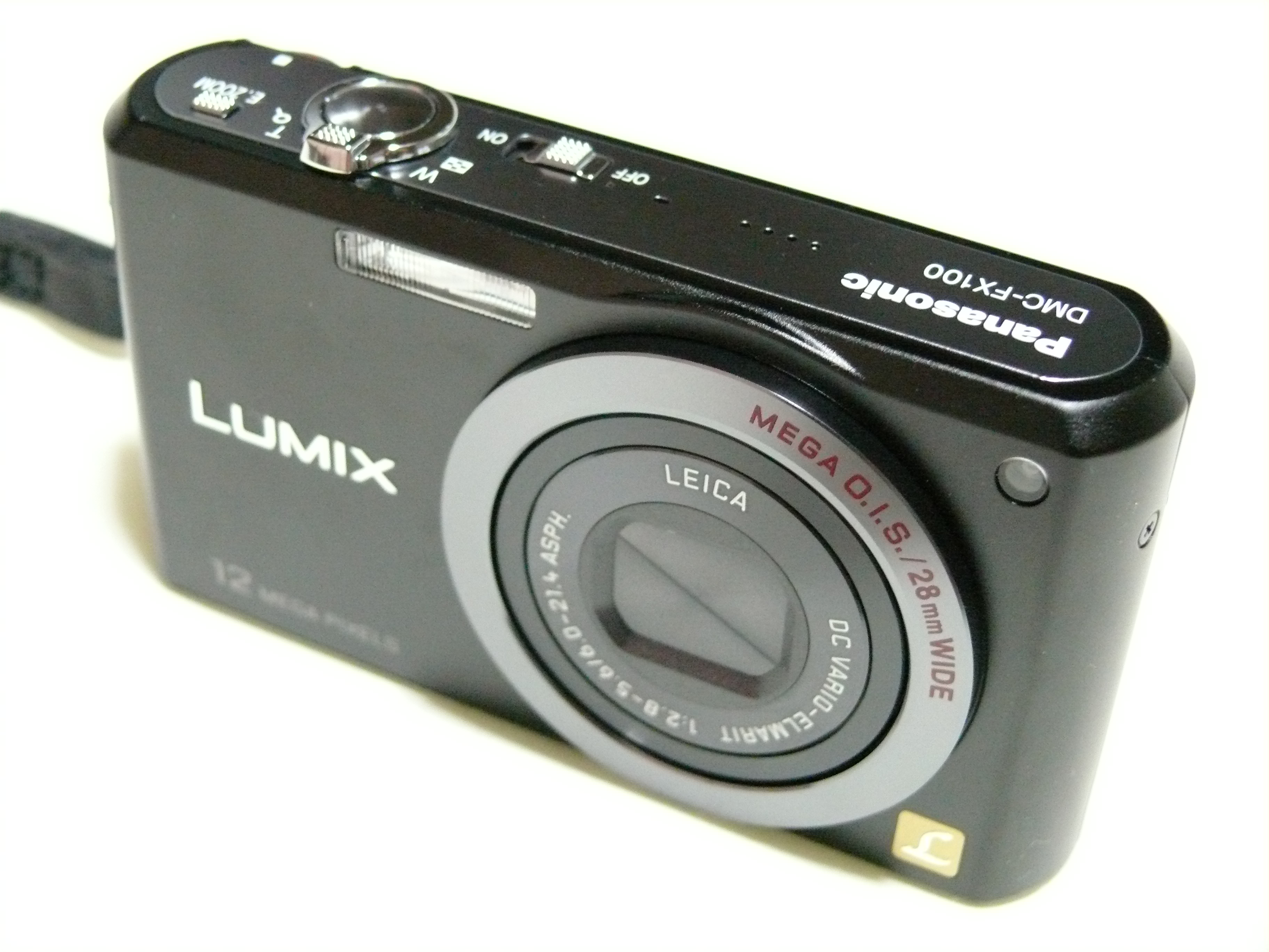 Panasonic LUMIX DMC-FX100.